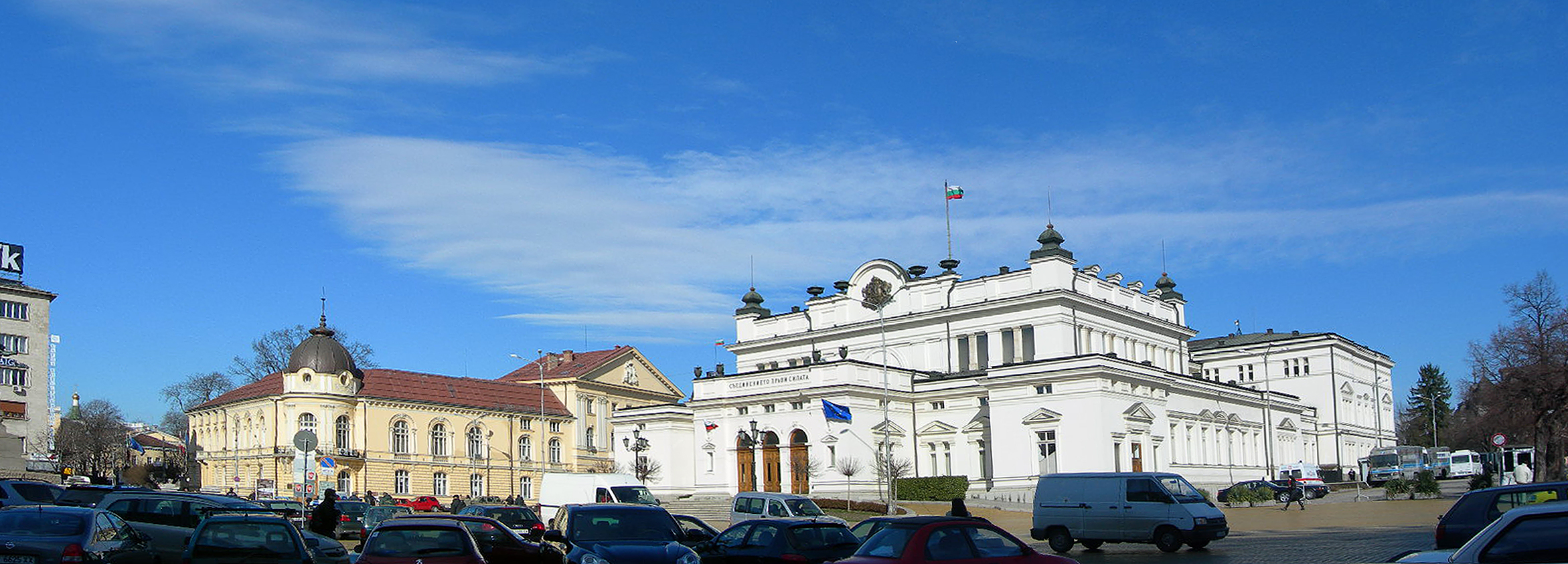 The National assembly square of Sofia, Bulgaria